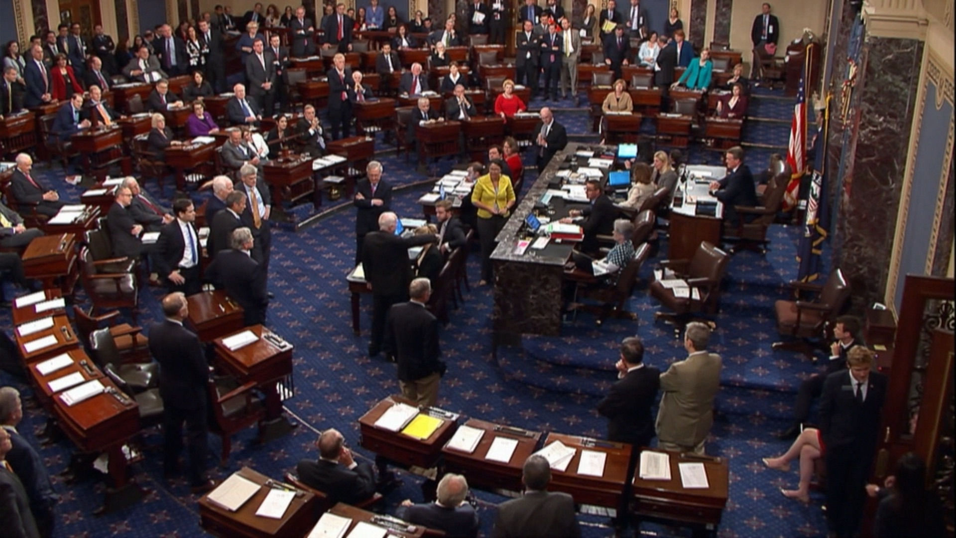 "Video coverage of the debates originating from the chambers of the U.S. House of Representatives and the U.S. Senate is in the public domain and as such, may be used without restriction or attribution."